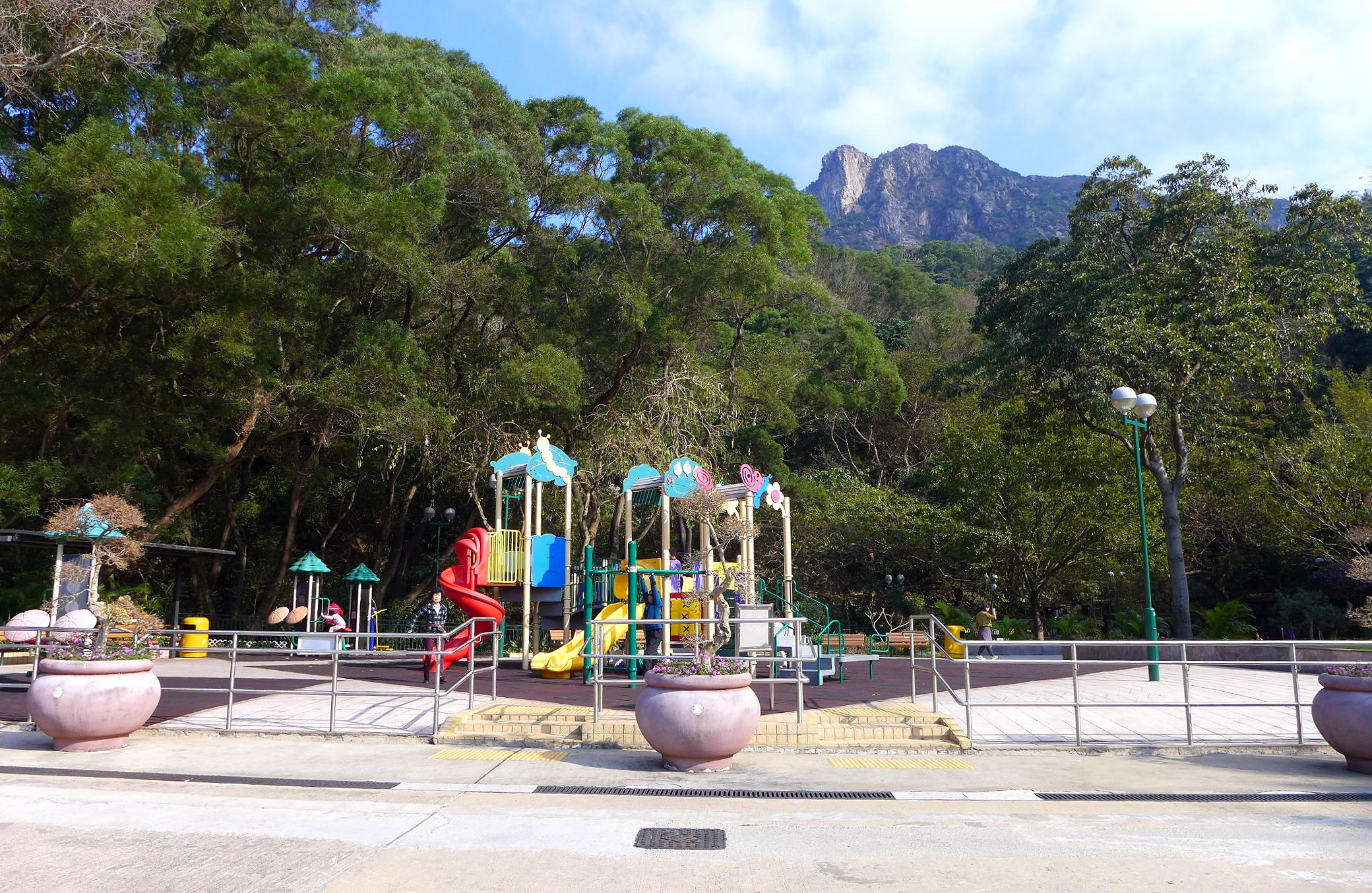 Lion Rock Park Children Play Area